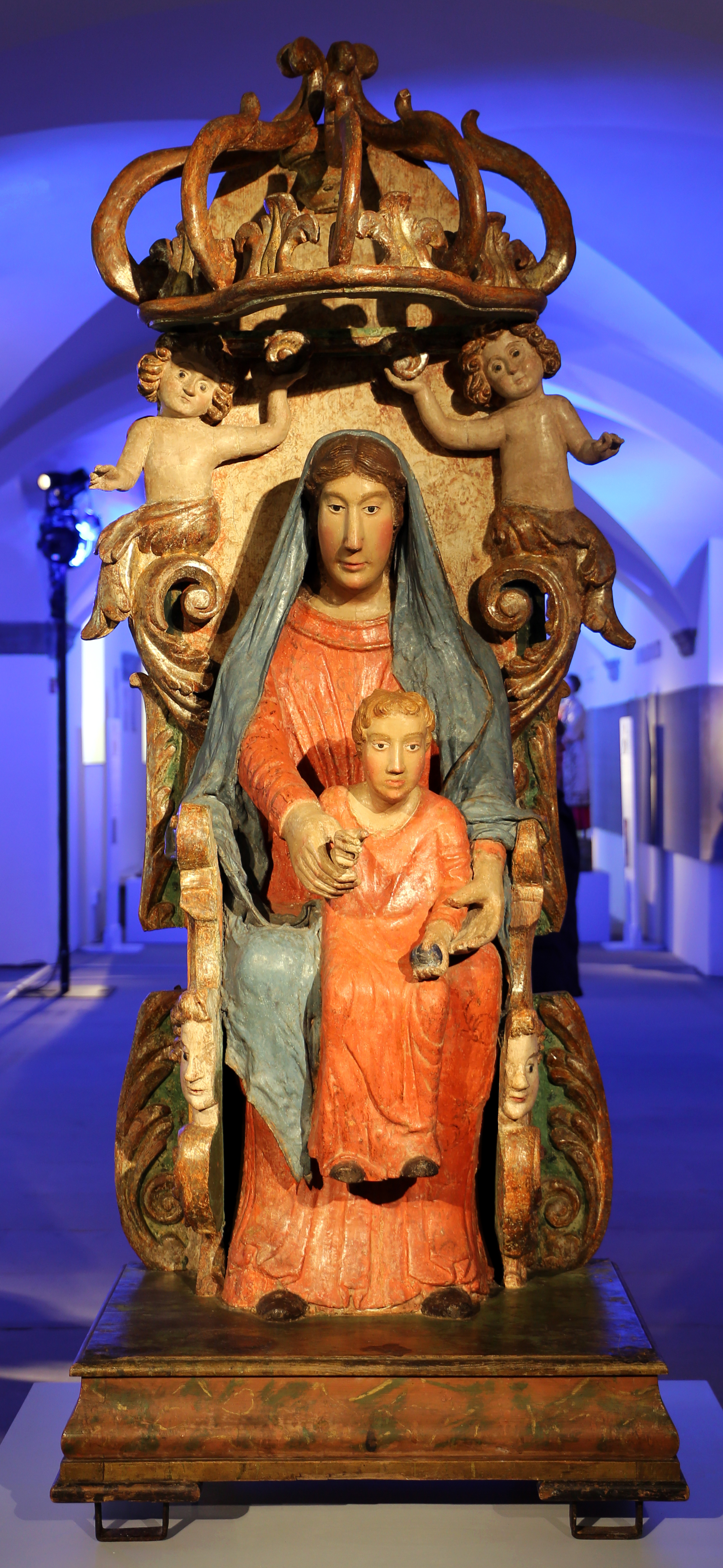 Maternità Divine exhibition in the Famedio di Santa Croce (Florence, 2017)